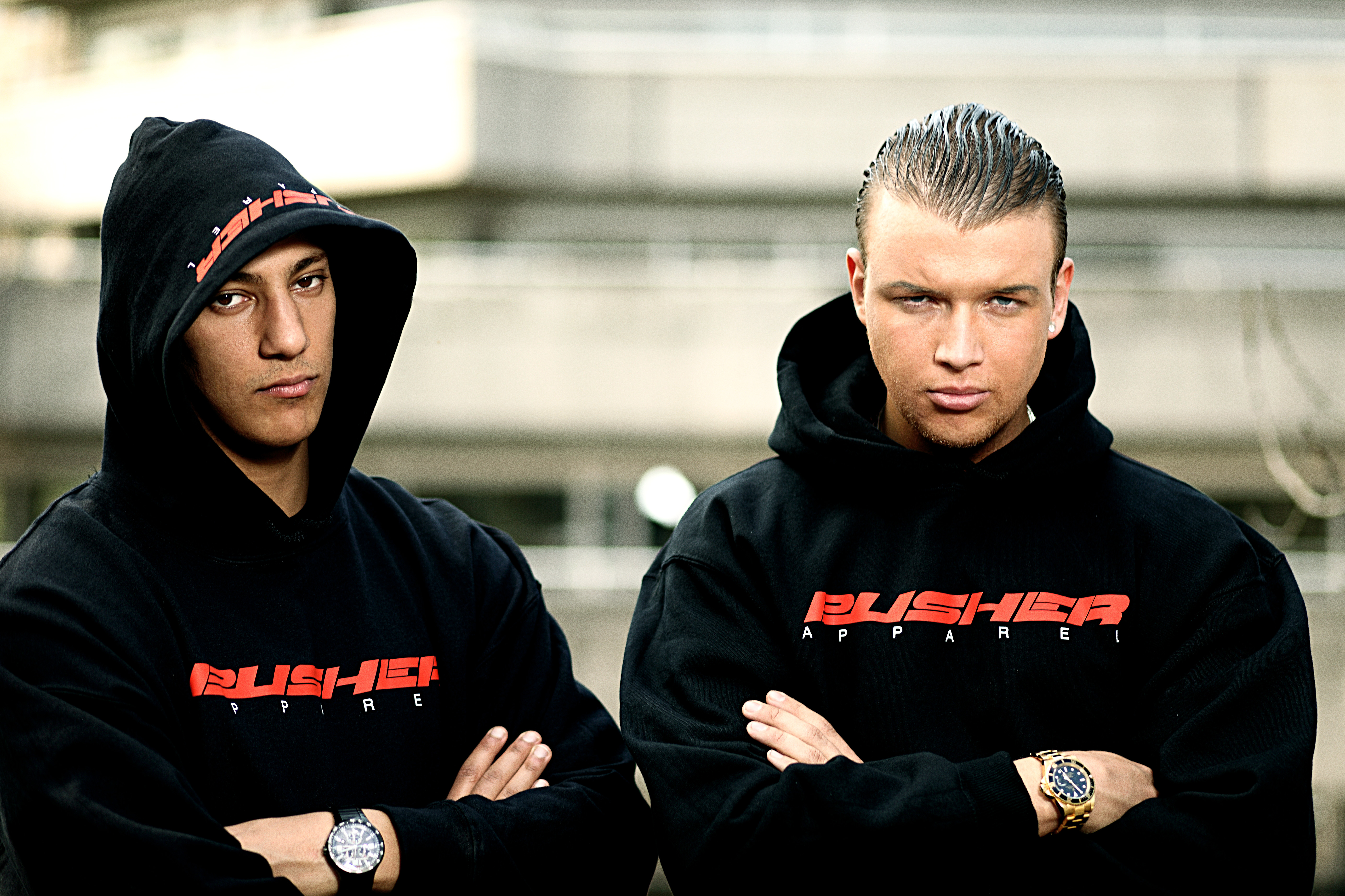 German rappers Farid Bang and Kollegah